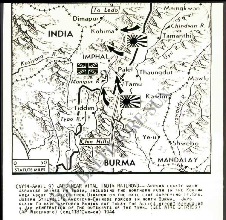 The attack on Kohima, 1944; a wire service map Source: ebay, Sept. 2013